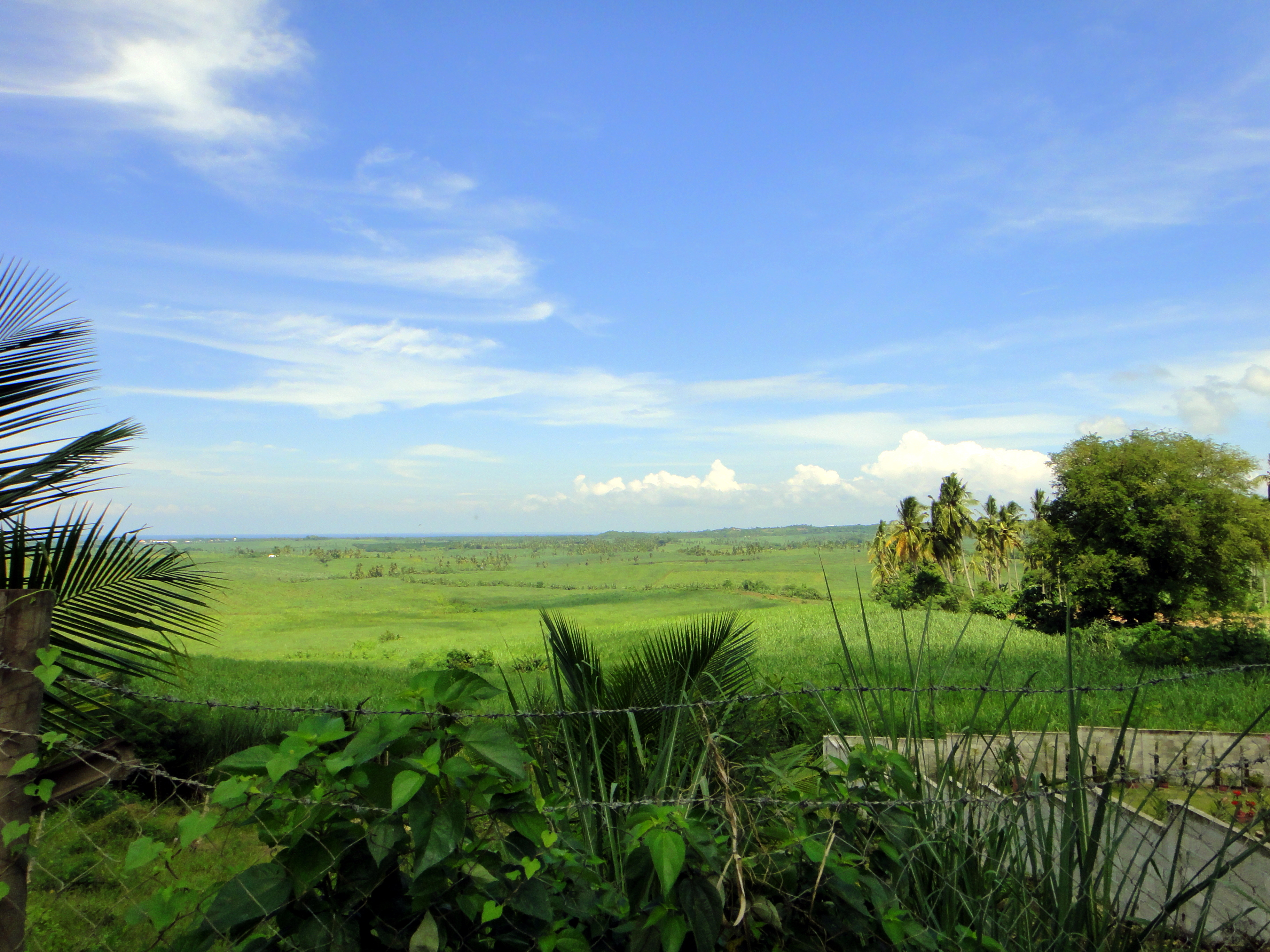 Tropical forest and farmland near Sogod, Central Cebu, Philippines